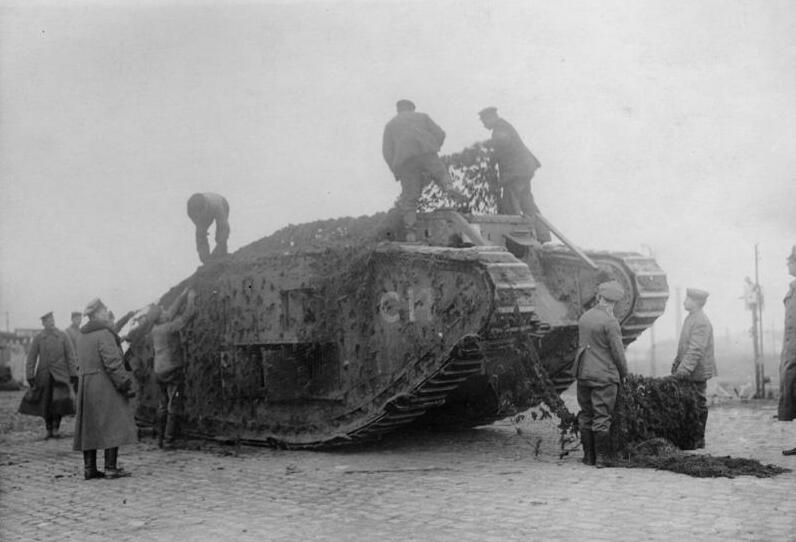 Mark IV tank C14 (No 509 female). Commanded by 2nd Lt Francis James Arnold. Photographed with German forces after the Battle of Cambrai.